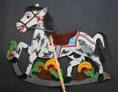 Konkalisahak, wayang kulit figure from the epos Serat Menak Sasak